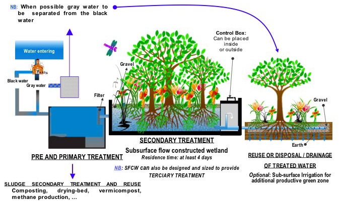 Schematic drawing from a typical sewage treatment plant via subsurface flow constructed wetlands (SFCW) for a productive and economical treatment and reuse of sewage and water.